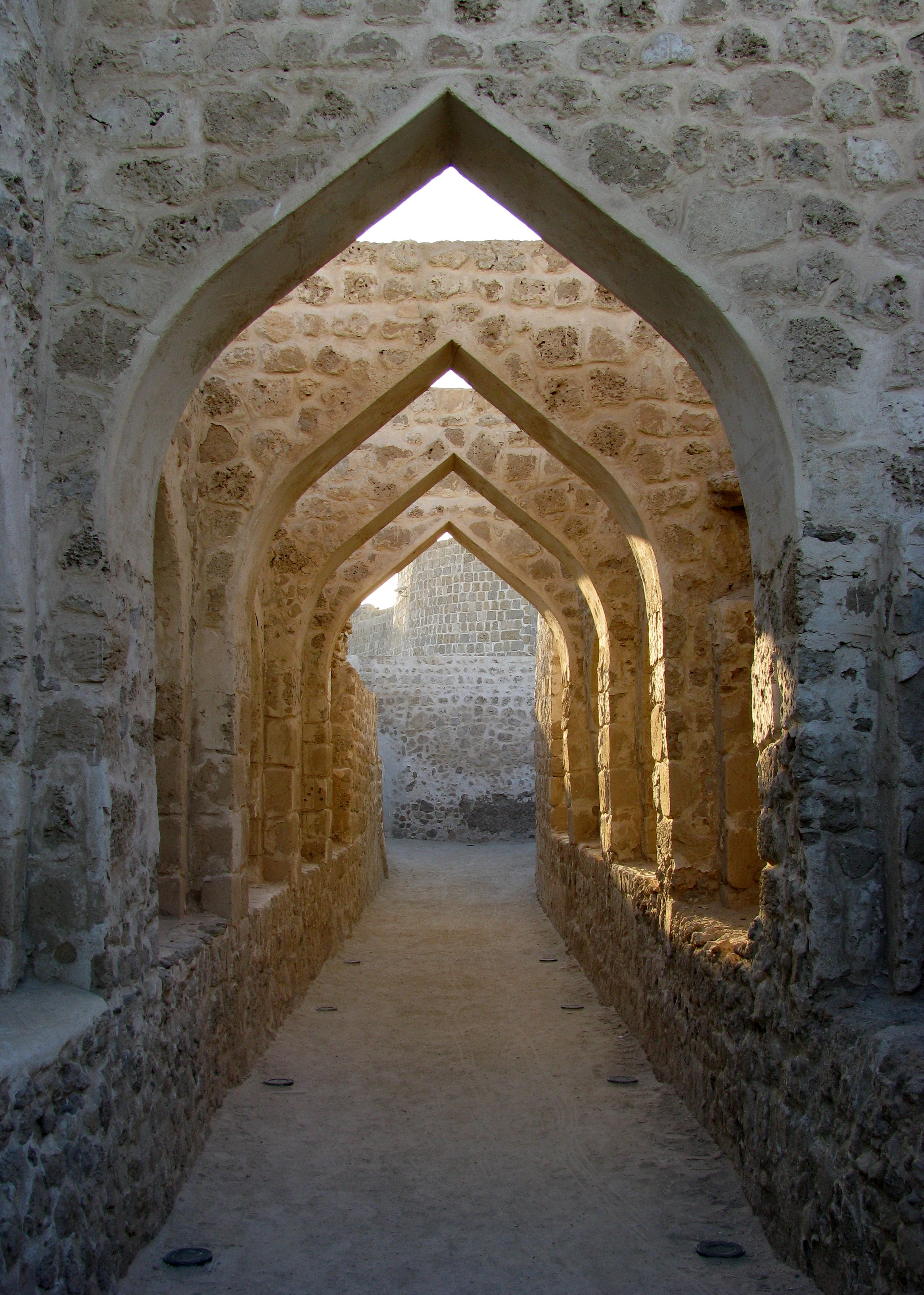 The fort was built by the Portuguese but subsequently held by an Arabic clan. We thought these arches had some Islamic design influences.